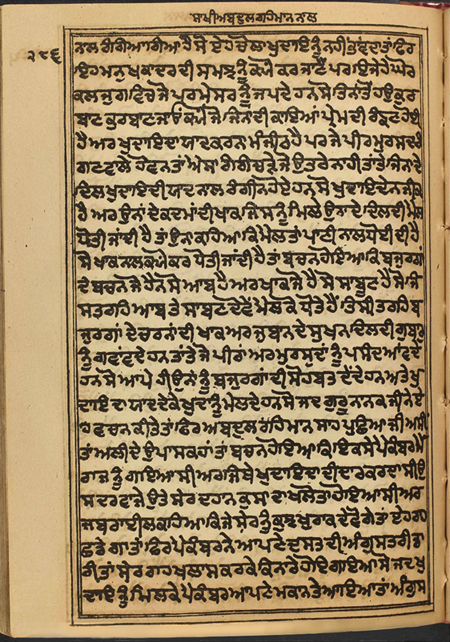 Bhai Mani Singh's Janamsakhi was originally written in 1712. This reproduction of the Janamsakhi is likely from the 19th century.